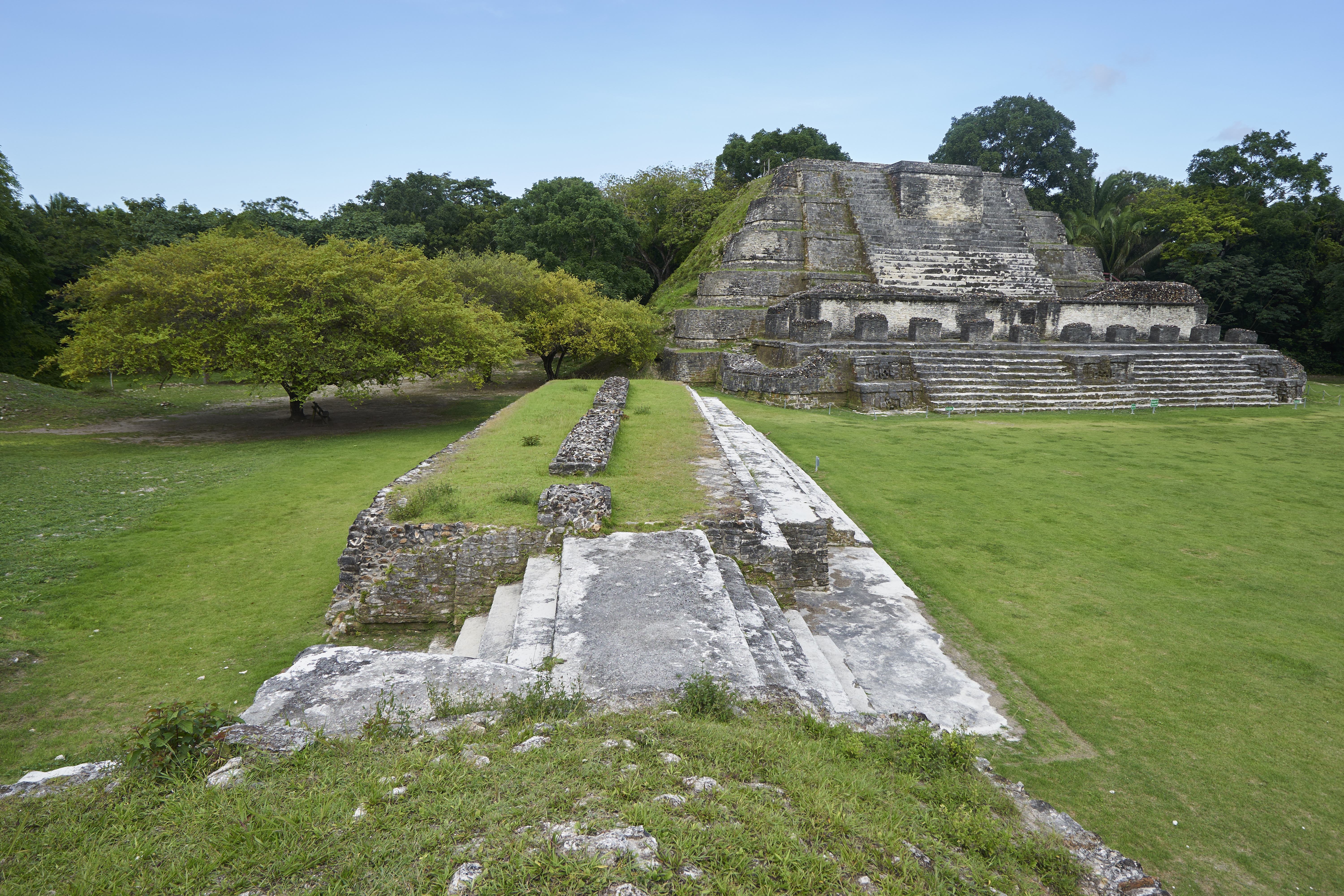 The top of Structure B1 with Structure B4 in the background at Altun Ha archeological site, Belize The making of this document was supported by the Community-Budget of Wikimedia Germany.